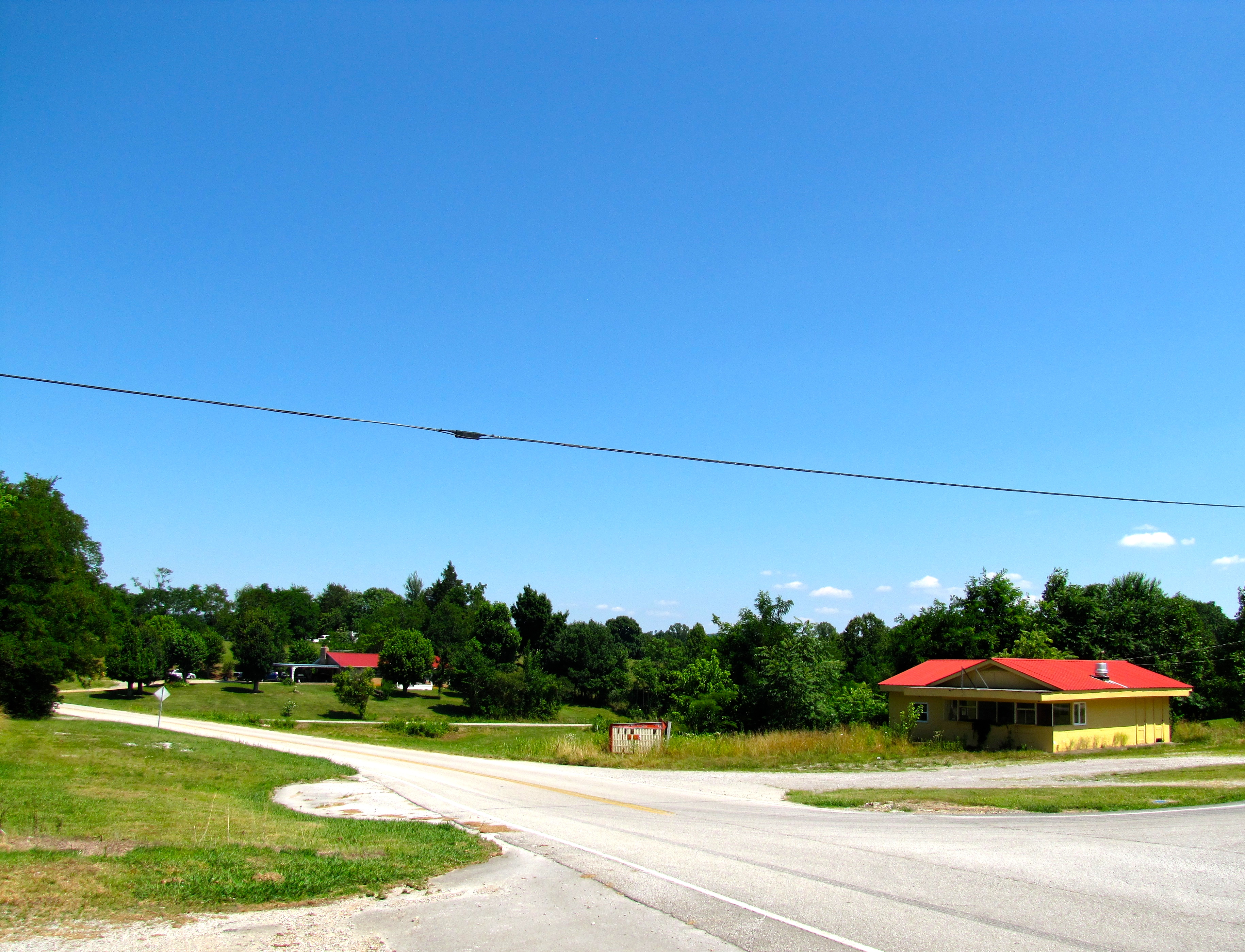 Houses and other buildings along State Route 136 in the Timothy area of northern Overton County, Tennessee, United States.